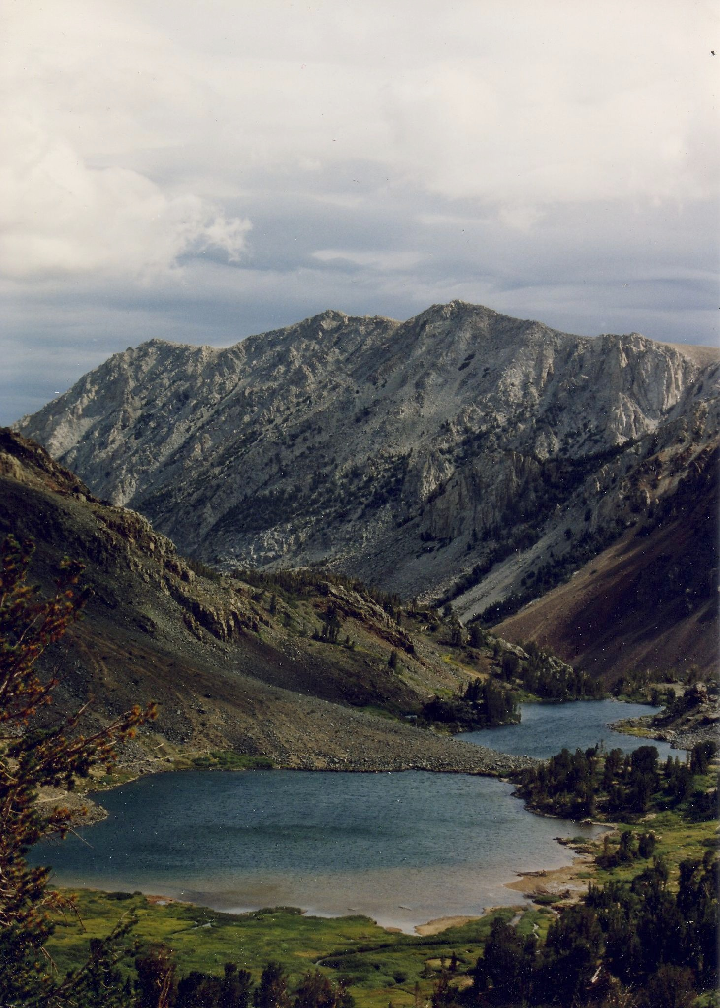 Virginia Lakes in the Hoover Wilderness area of the Toiyabe National Forest, Sierra Nevada, Mono County, California.